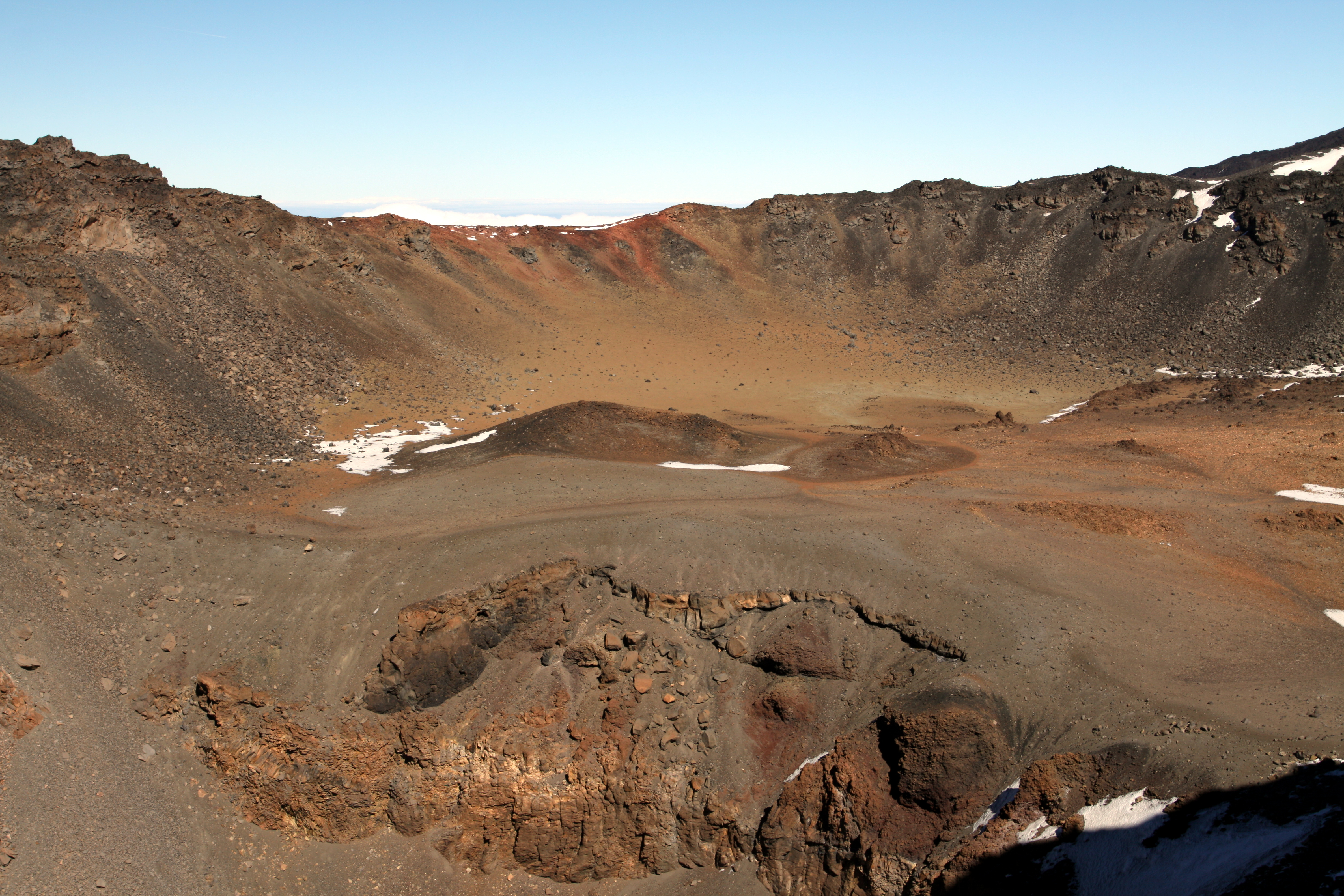 Crater of Pico Viejo on Tenerife, Canary Islands, Spain.